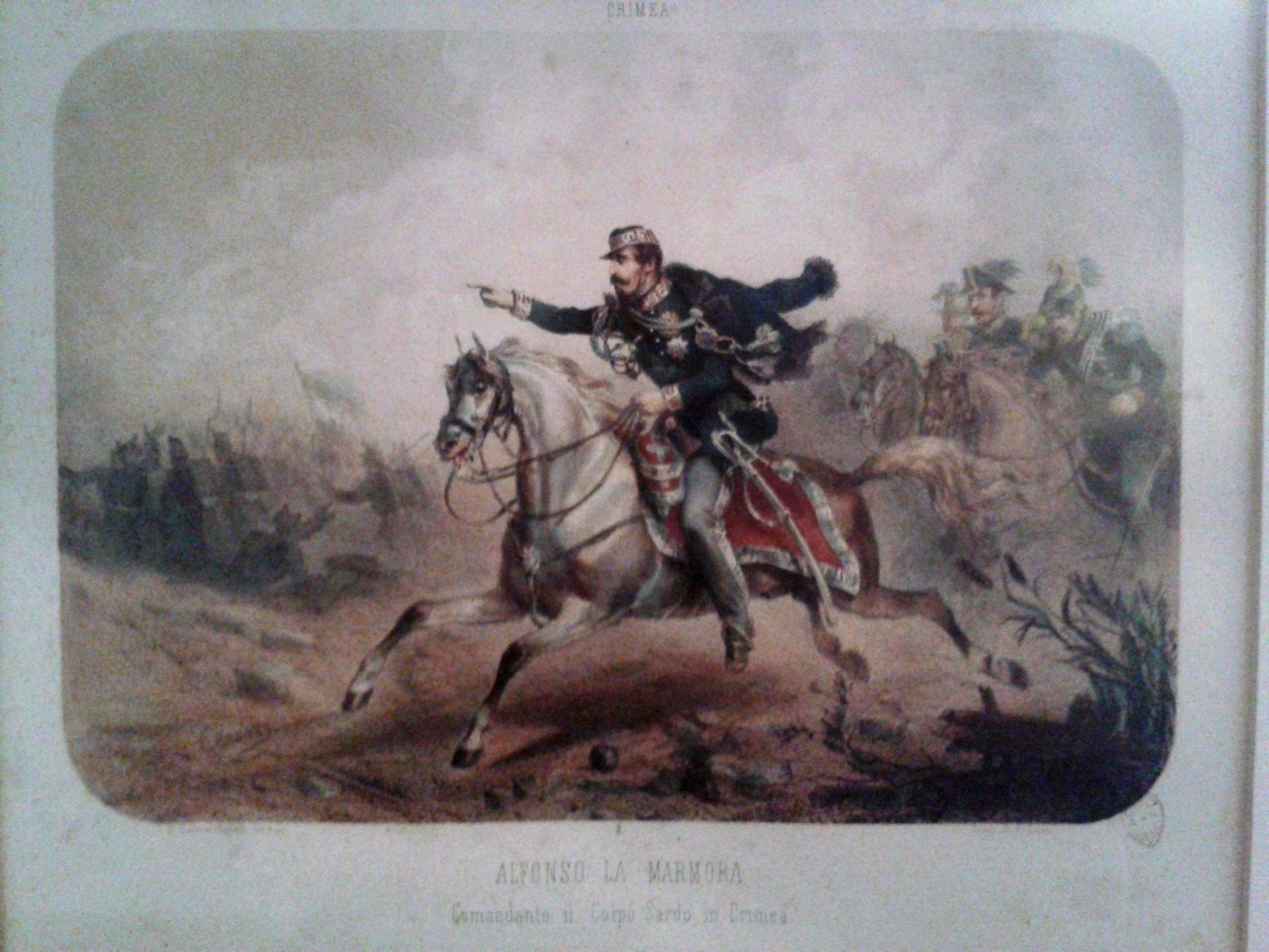 Italian general Alfonso La Marmora (1804-1878) in Crimean war.